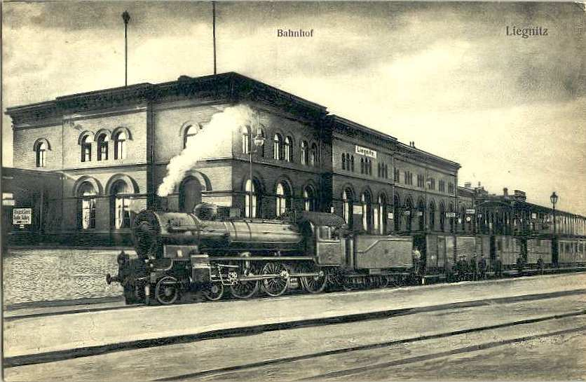 Train station in Legnica